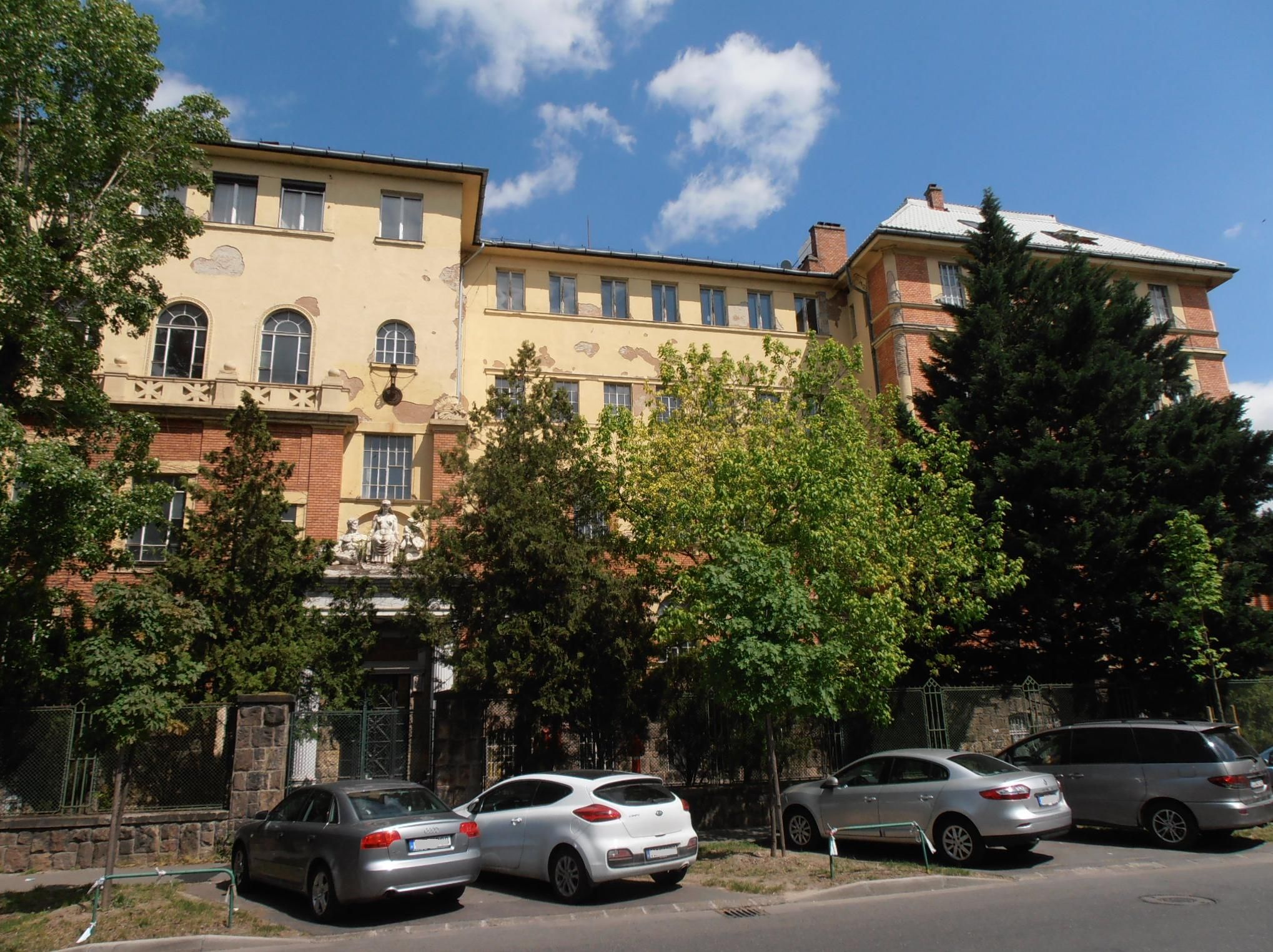 Building of National Centre of Epidemiology, Budapest, HungaryOrszágos Epidemiológiai Központ. - Budapest, Albert Flórián út 2